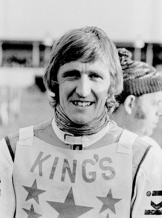 Photograph of Malcolm Simmons taken at Cowley Stadium, Oxford by Keith Lawson, the official track photographer